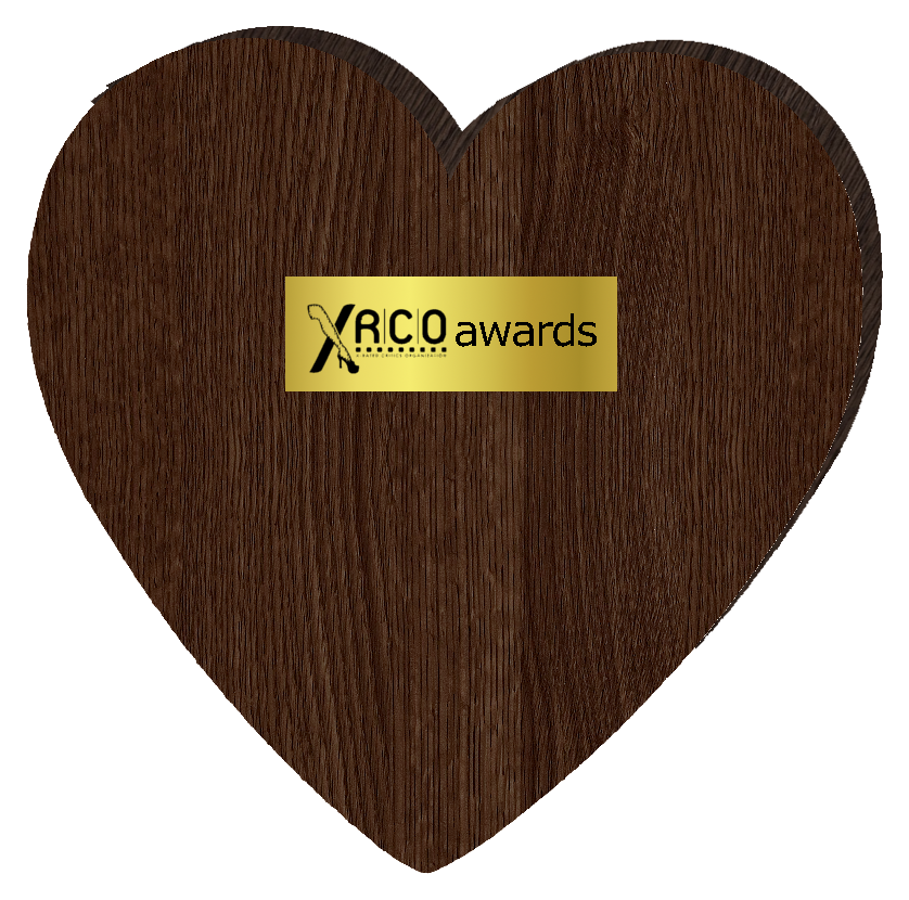 Graphic artwork representing a "XRCO Awards" trophy